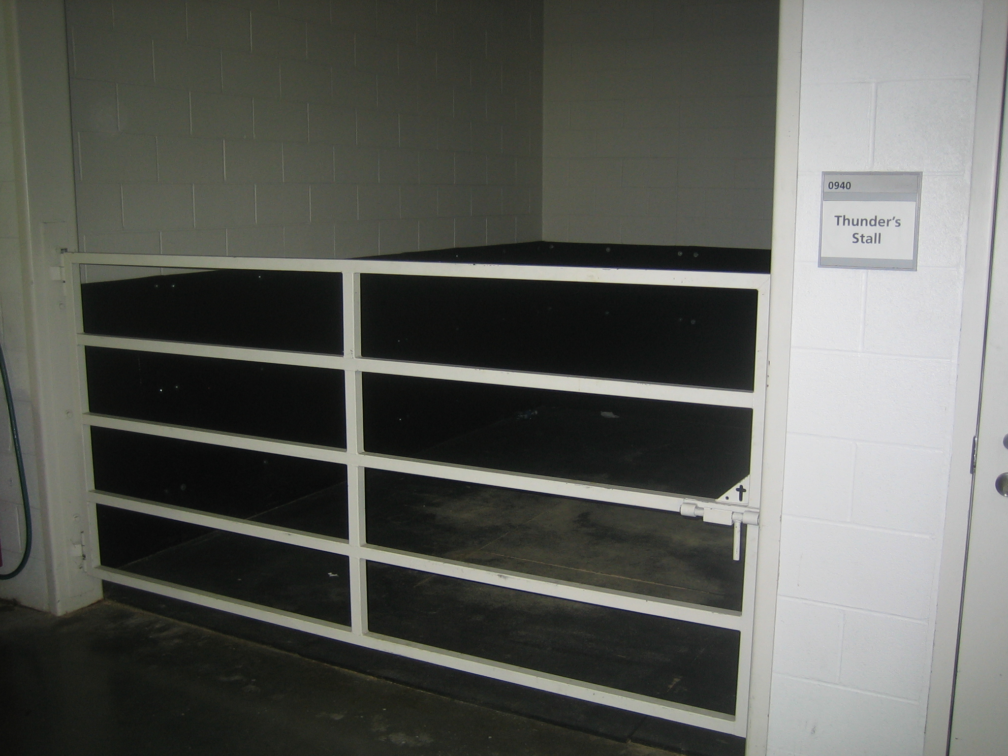 On gameday there is a horse that is in here and rides out onto the field after every Broncos score.